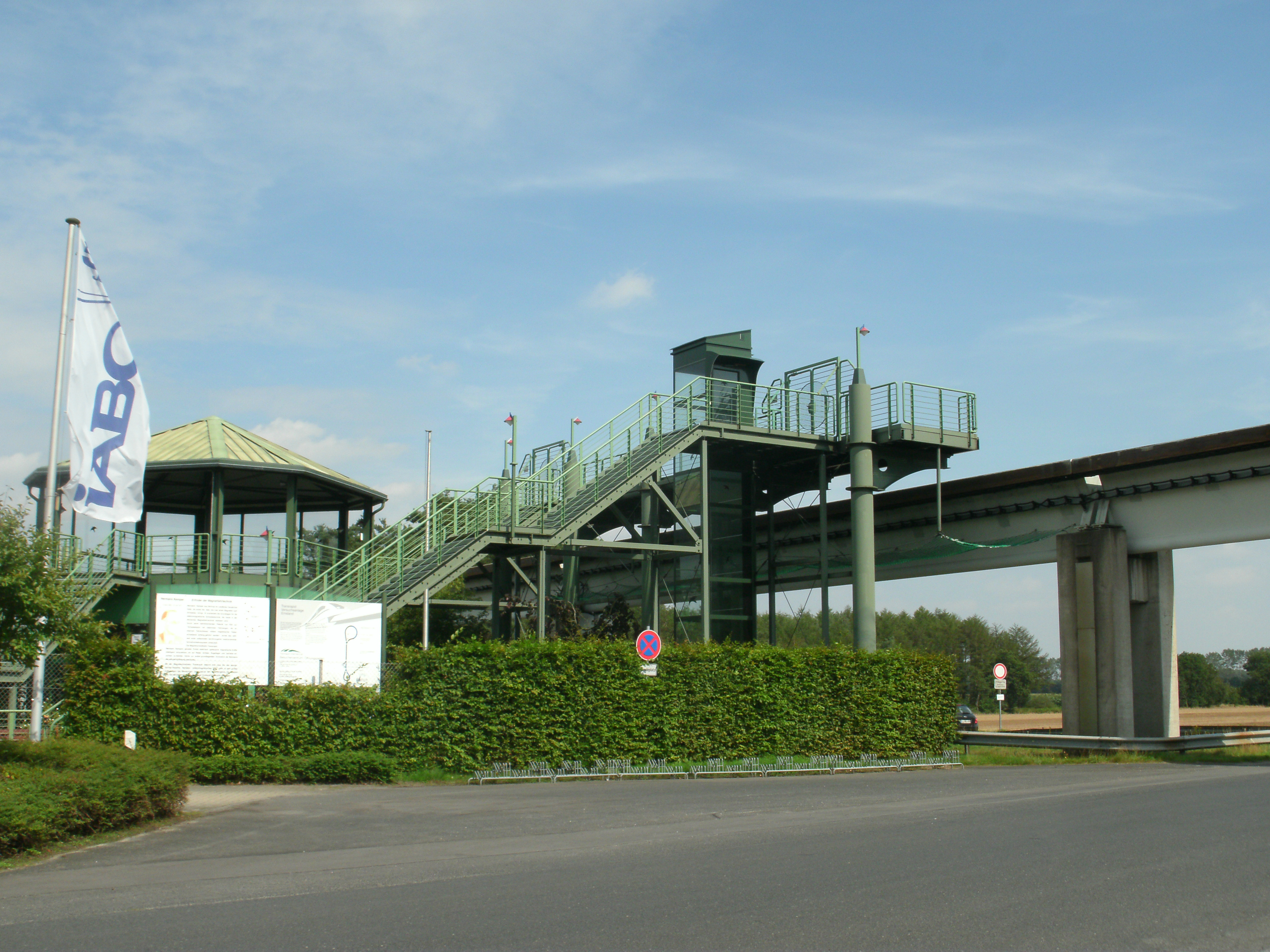 platform of the Transrapid Test Facility in Lathen, Germany